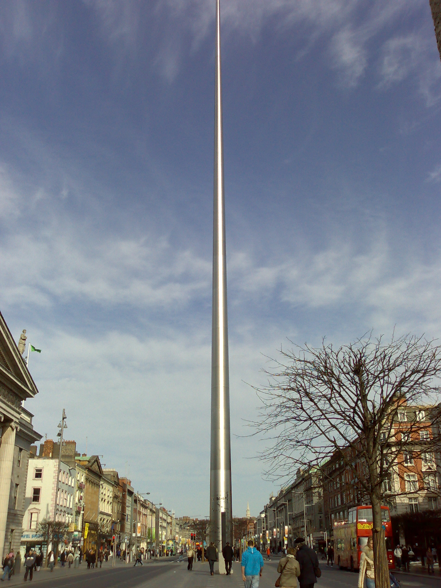 Spire of Dublin in the morning.